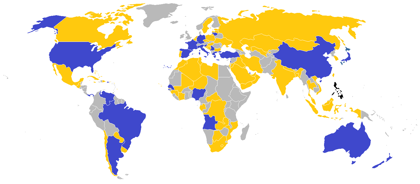 Les nations représentées au Championnat du monde de basket masculin 2006 Shows teams of FIBA basketball World Championship Japan'2006 on a world map